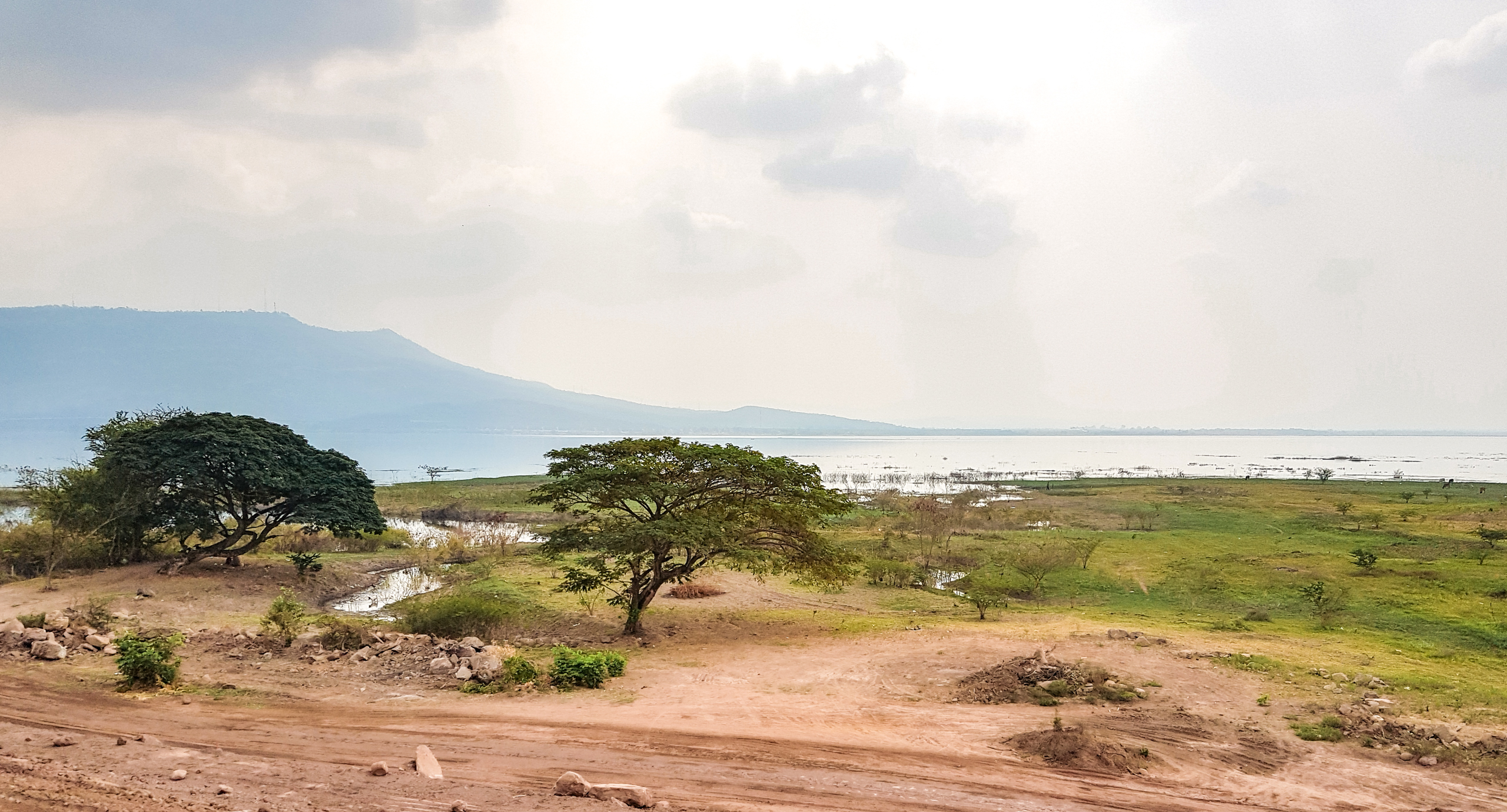 Lam Takhong Reservoir as seen from the express train on the northern side of the lake